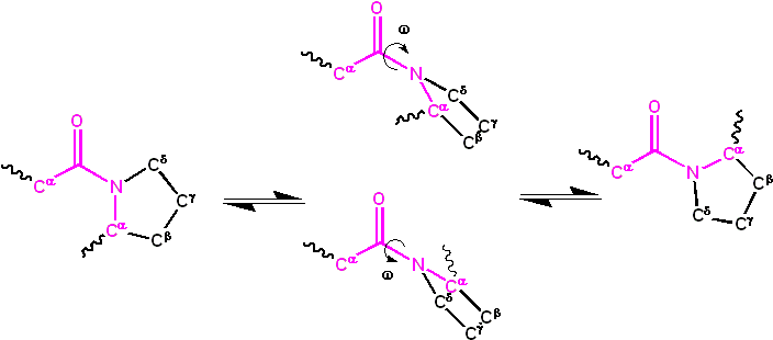 Cis-trans isomerization of an X-Pro peptide bond, with its two transition states. Made with ChemDraw.